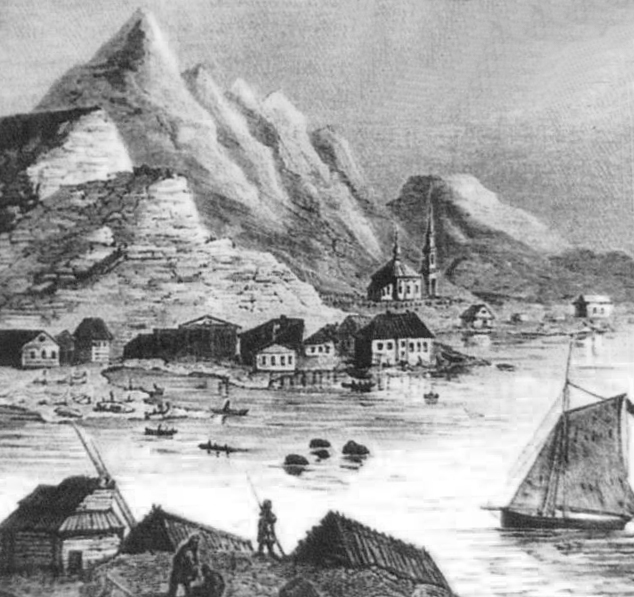 Print by Russian painter N. N. Karazin (1842—1908). View of Kandalaksha village and Krestovaja Mountain, near Murmansk.